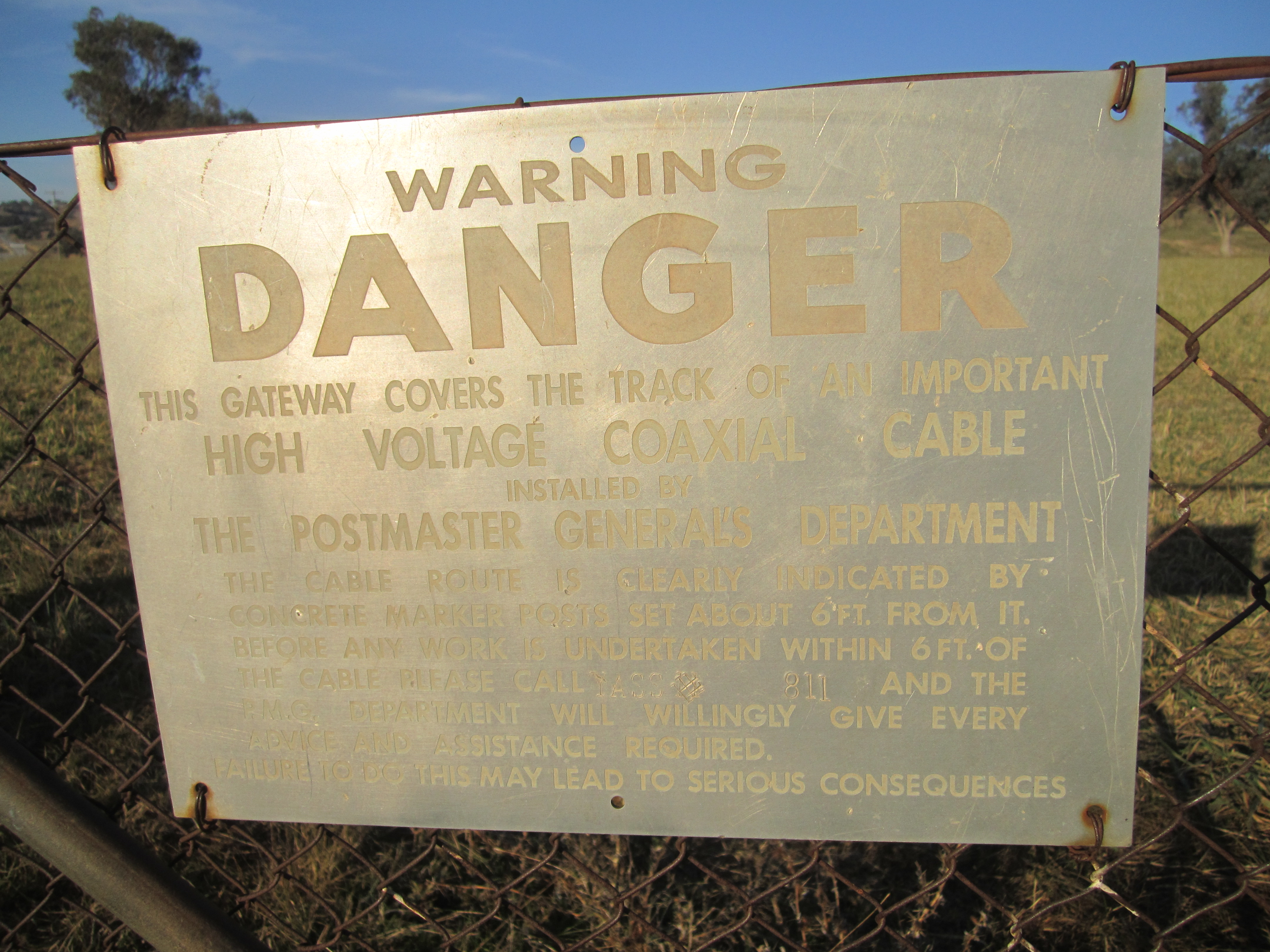 Gate sign, Sydney-Melbourne coaxial cable, just north of Coolac, NSW, May 2012